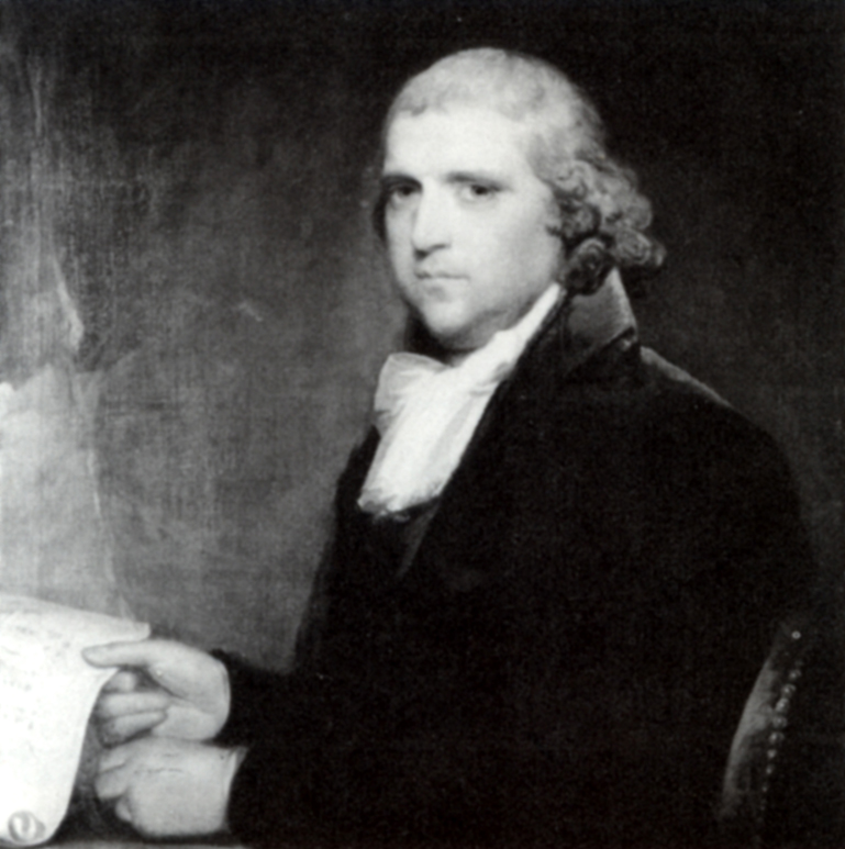 Portrait of William Cooper (judge) (1754-1809) painted by Gilbert Stuart